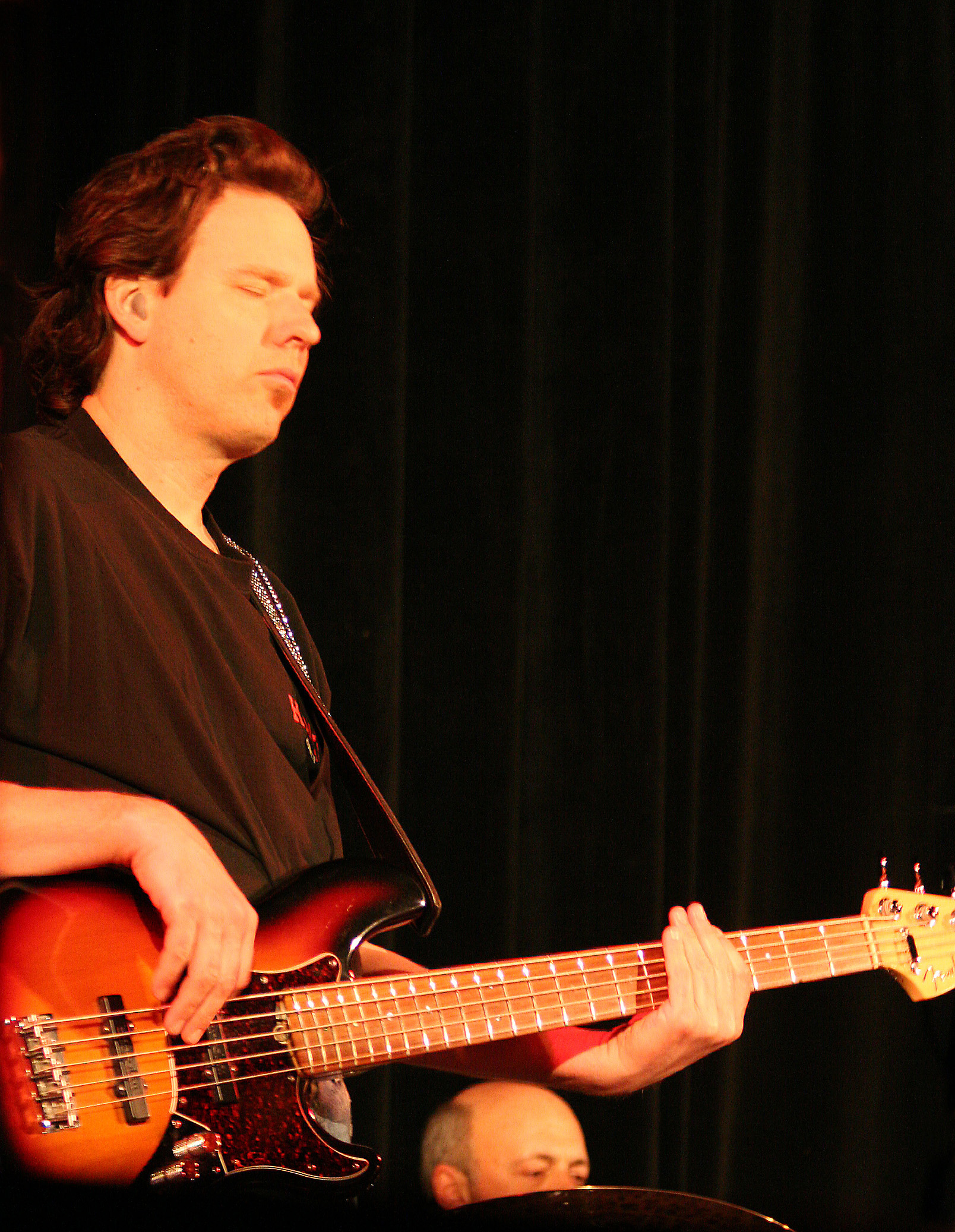 Hank Van Sickle bass & (Joe Yuele drums) with John Mayall, performing in Hilo, Hawaii February 4th, 2006